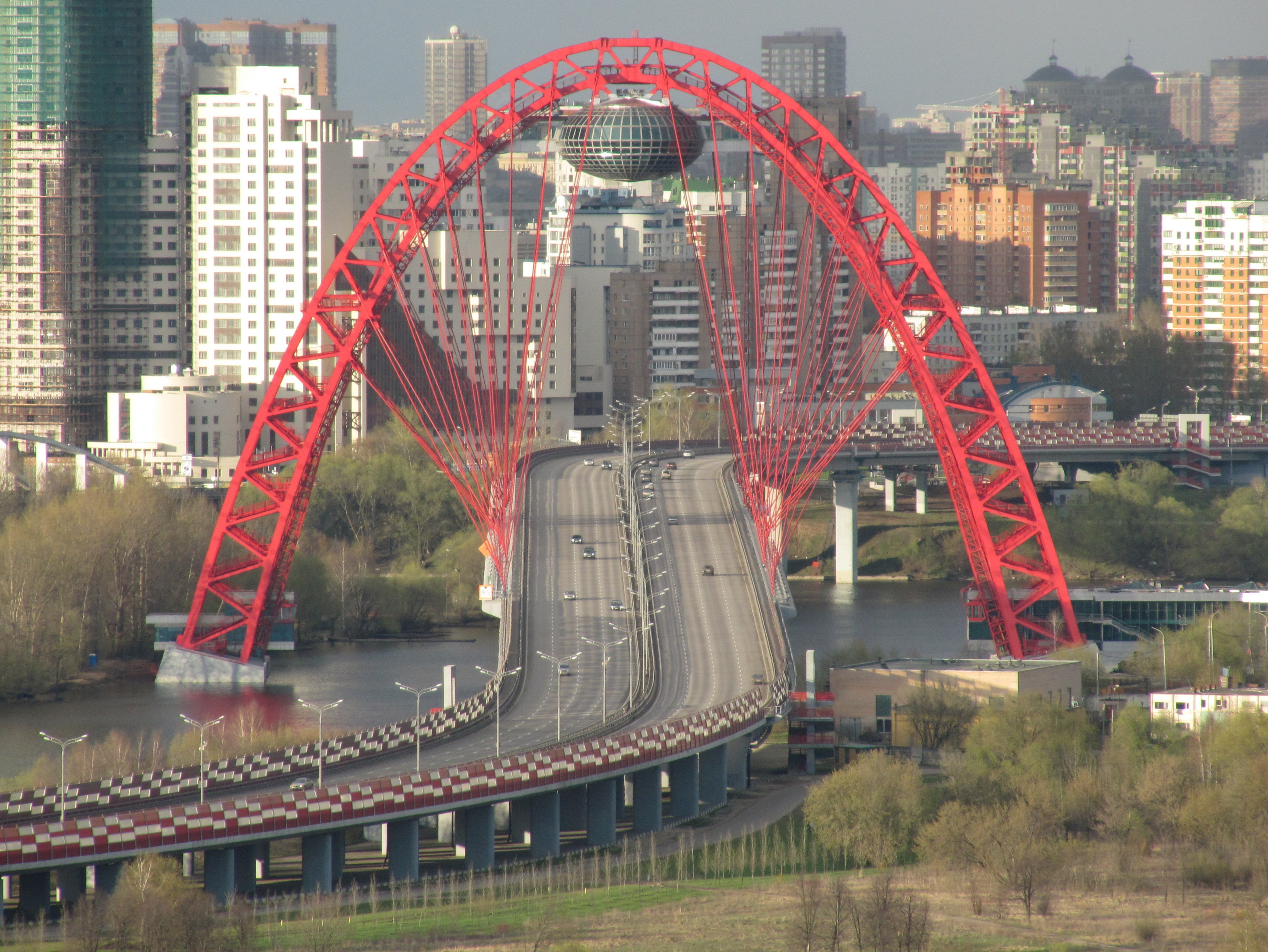 Zhivopisny Bridge, view from Krylatsky Hills